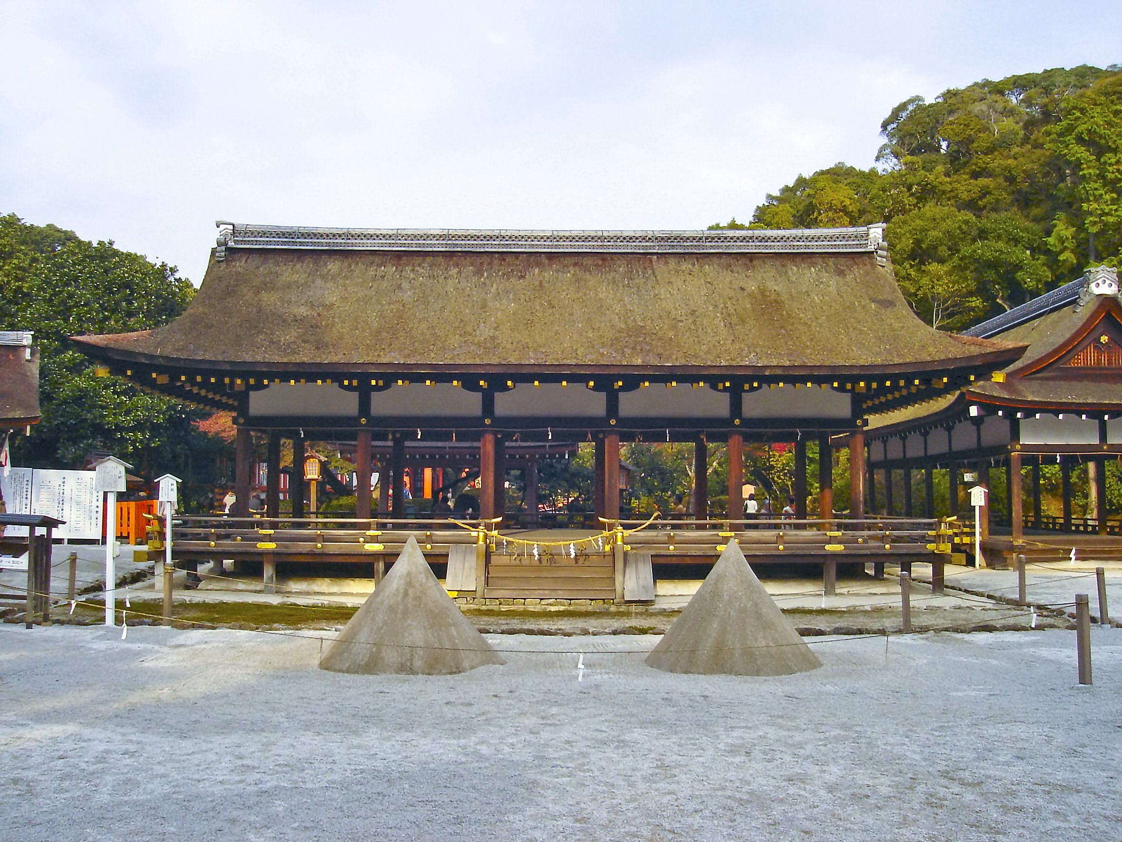 Kamigamo Shrine, Saiden & Tatezuna